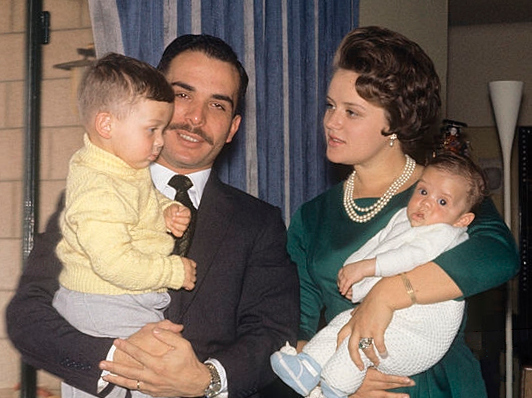 King Hussein of Jordan photographed in his house in Amman with his first son Abd Allah in arms, while his wife Muna is holding their second son, Faysal. Amman (Jordan), March 1964.